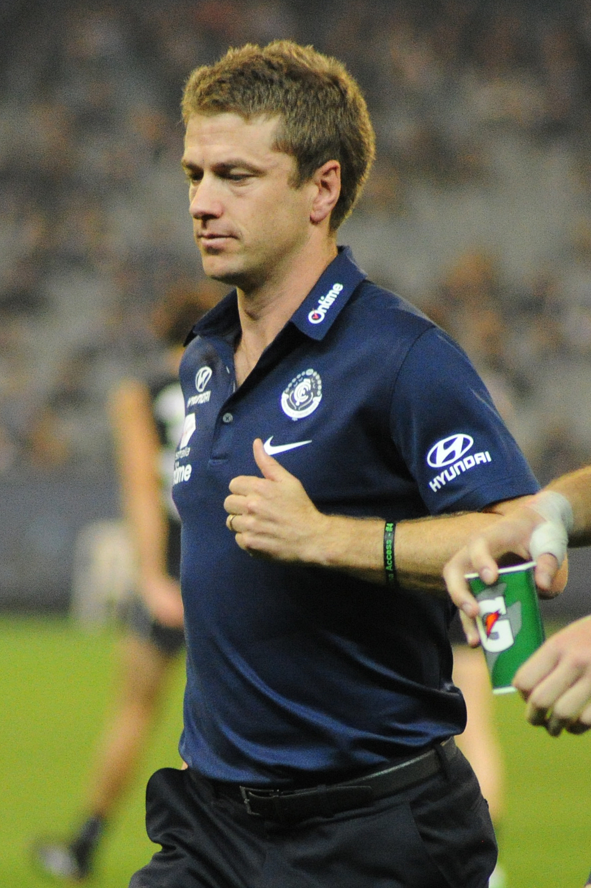 Tim Clarke during the AFL round five match between Carlton and West Coast on 21 April 2018 at the Melbourne Cricket Ground in Melbourne, Victoria.